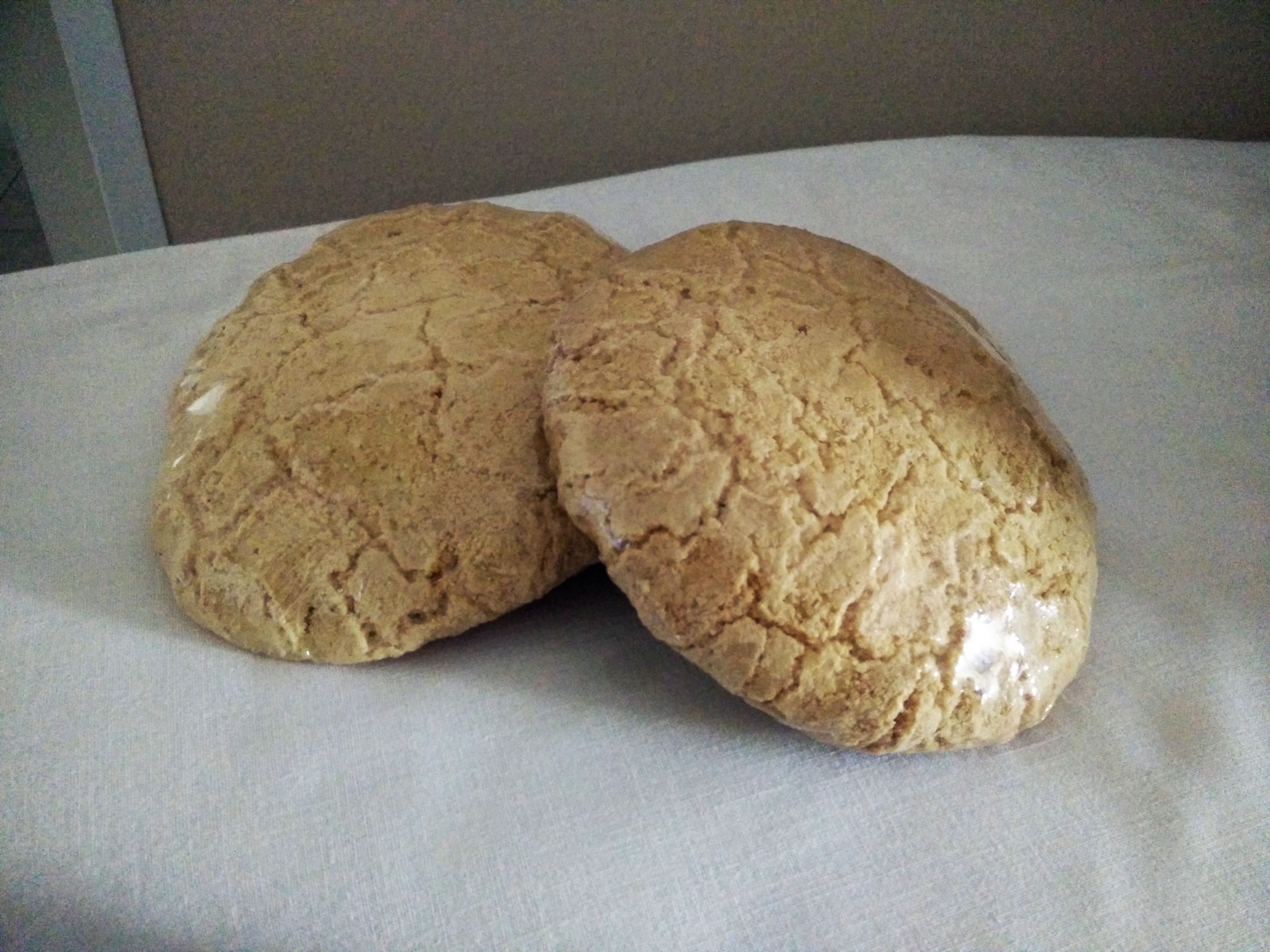 albanian traditional sweet